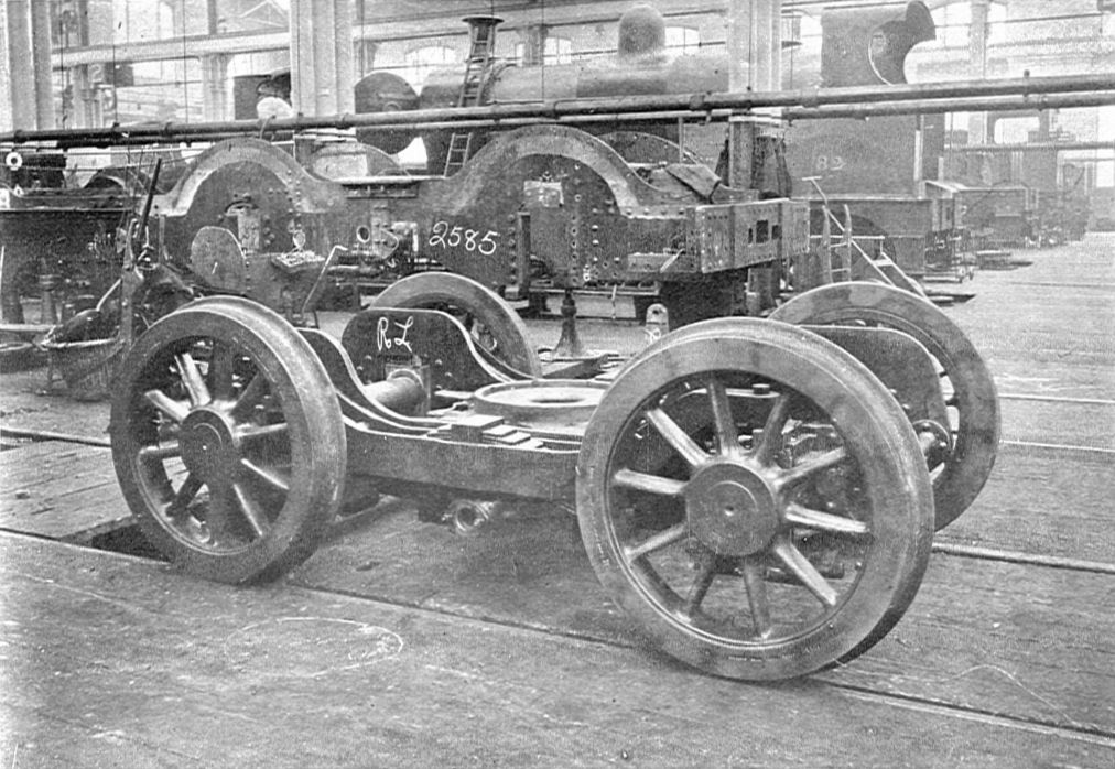 An Engine Bogie in the Erecting Shop at Derby-Midland Railway